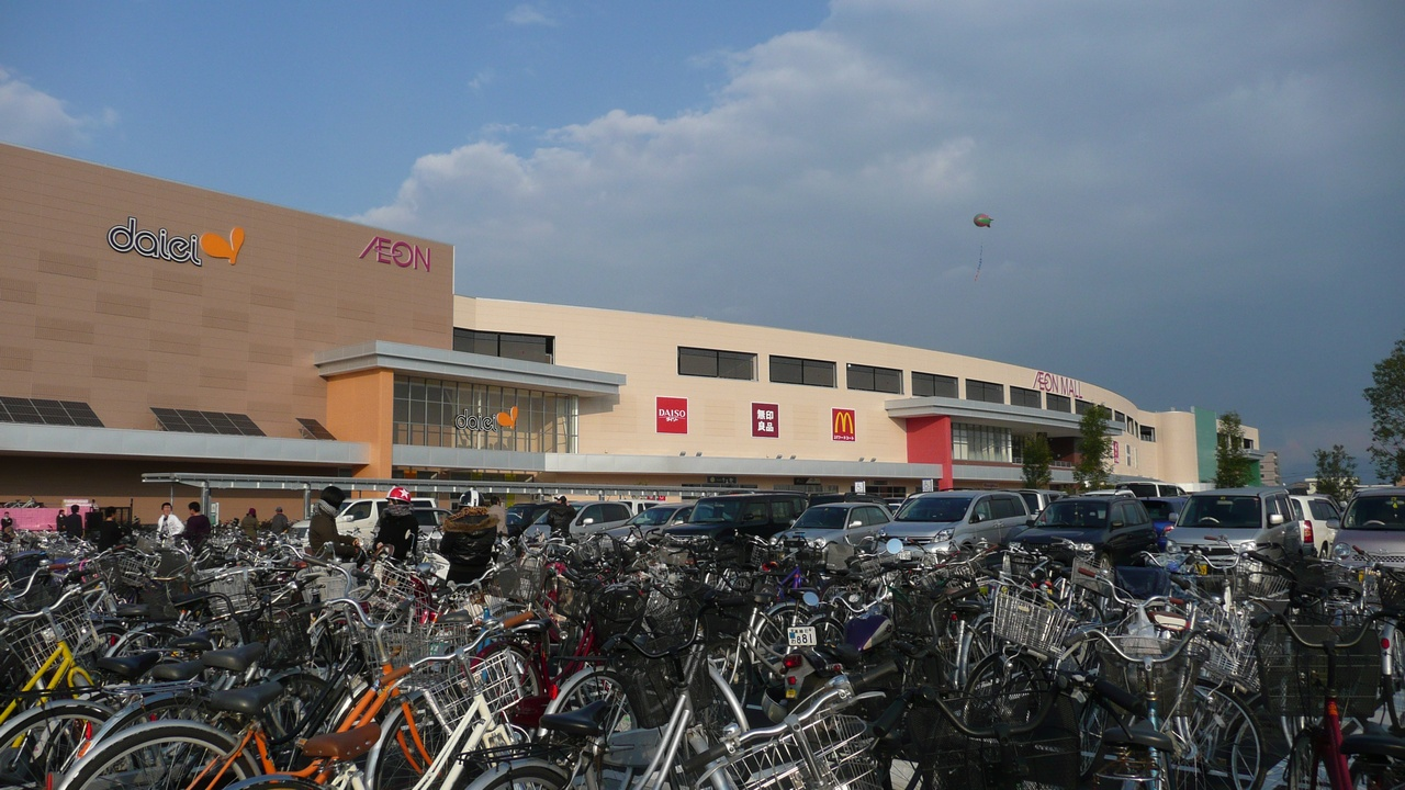 ÆONmall MiELL (Miyakonojo City, Miyazaki, Japan)